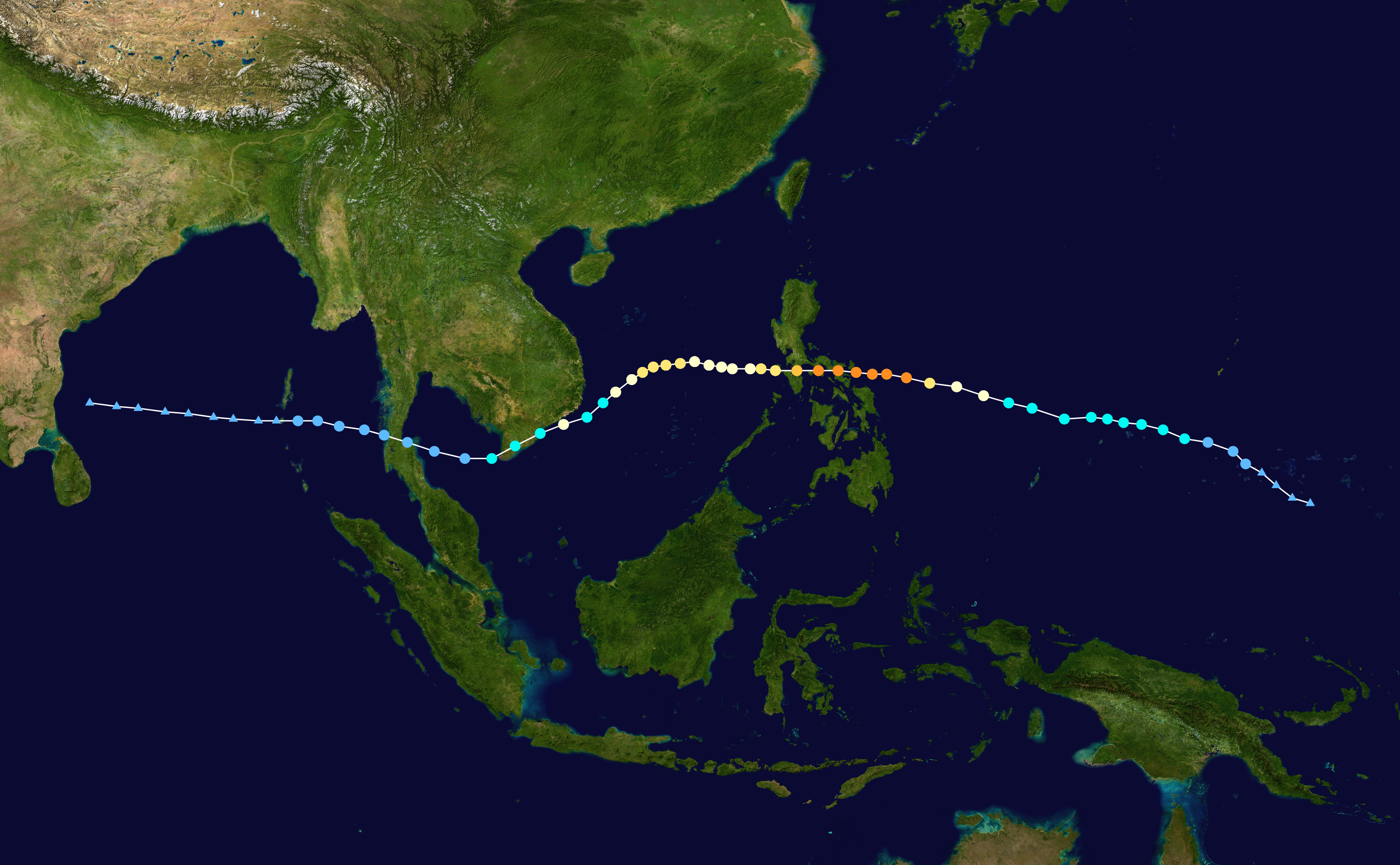 Track map of Typhoon Durian of the 2006 Pacific typhoon season. The points show the location of the storm at 6-hour intervals. The colour represents the storm's maximum sustained wind speeds as classified in the Saffir–Simpson scale (see below), and the shape of the data points represent the nature of the storm, according to the legend below. Saffir–Simpson scale Tropical depression≤38 mph≤62 km/h Category 3111–129 mph178–208 km/h Tropical storm39–73 mph63–118 km/h Category 4130–156 mph209–251 km/h Category 174–95 mph119–153 km/h Category 5≥157 mph≥252 km/h Category 296–110 mph154–177 km/h Unknown Storm type Tropical cyclone Subtropical cyclone Extratropical cyclone / Remnant low / Tropical disturbance / Monsoon depression